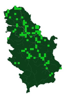 Rasprsotranjenje vrste u Srbiji (Alciphron)